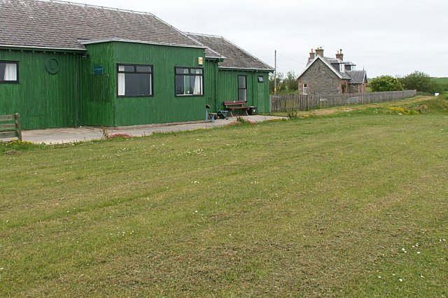 Lybster railway station Original description: Lybster station